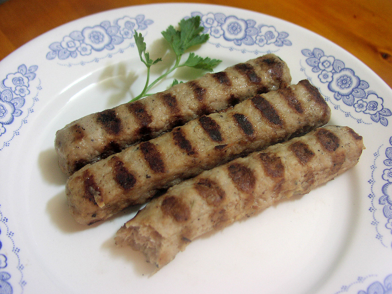 Kebapche - sort of grilled meal, made of minced meat and spices, typical for the Bulgarian cuisine Bulgarian:Кебапче